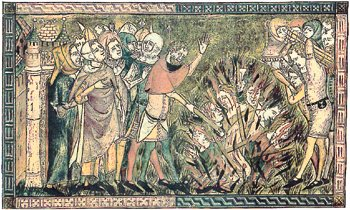 A contemporary drawing of the 2000 Jews of Strasbourg being burned to death over a pit on Feb. 14, 1349 in the Strasbourg Massacre during the Black Death persecutions. The Jews were accused of causing the Black Death by poisoning the wells. Babies thrown out to be saved were thrown back into the fire. The monument to this massacre erected in the early 20th century was removed by the Nazis.